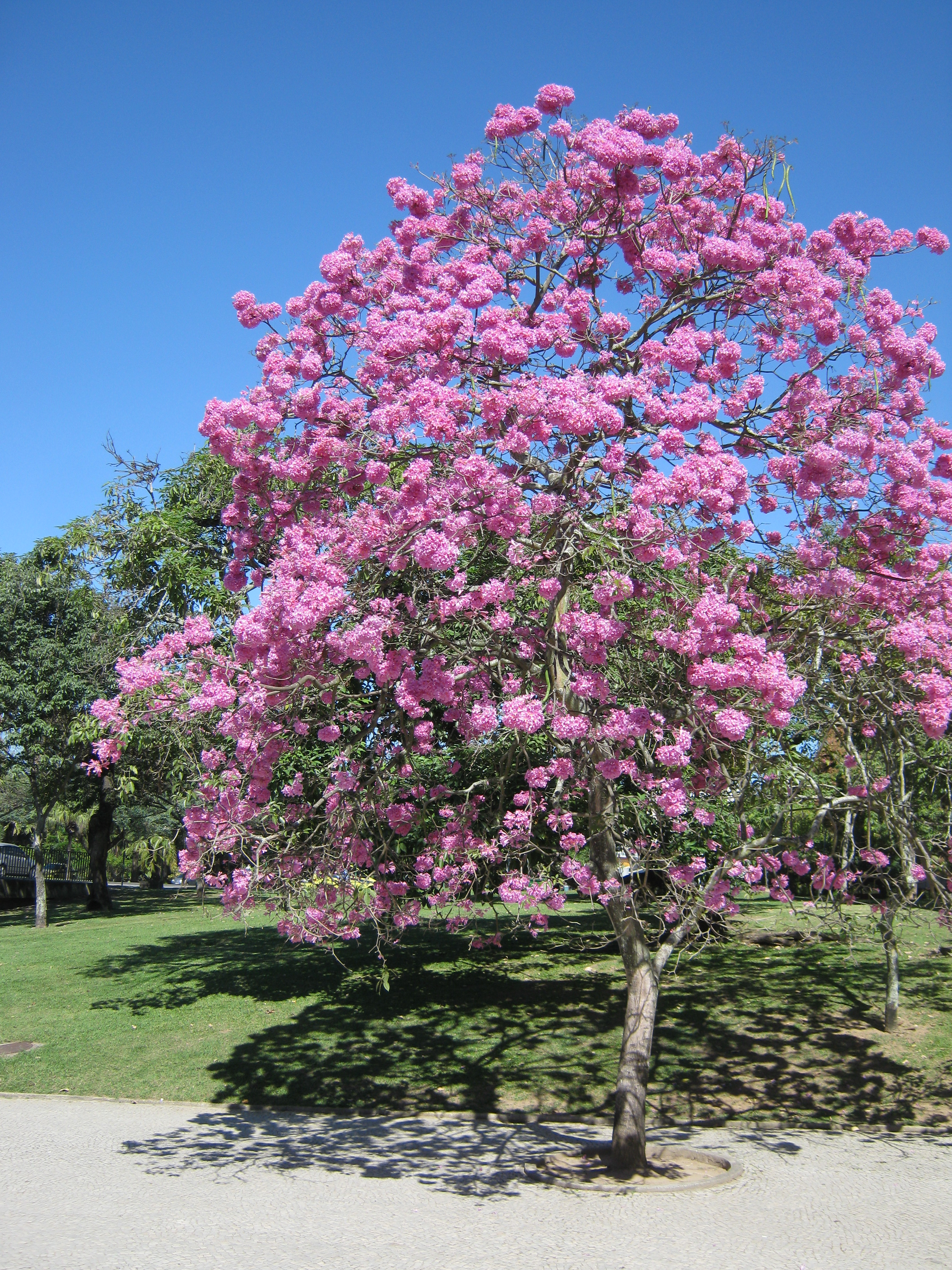 Handroanthus impetiginosus (Mart. ex DC.) Mattos, syn. Tabebuia avellanedae Lorentz ex Griseb.